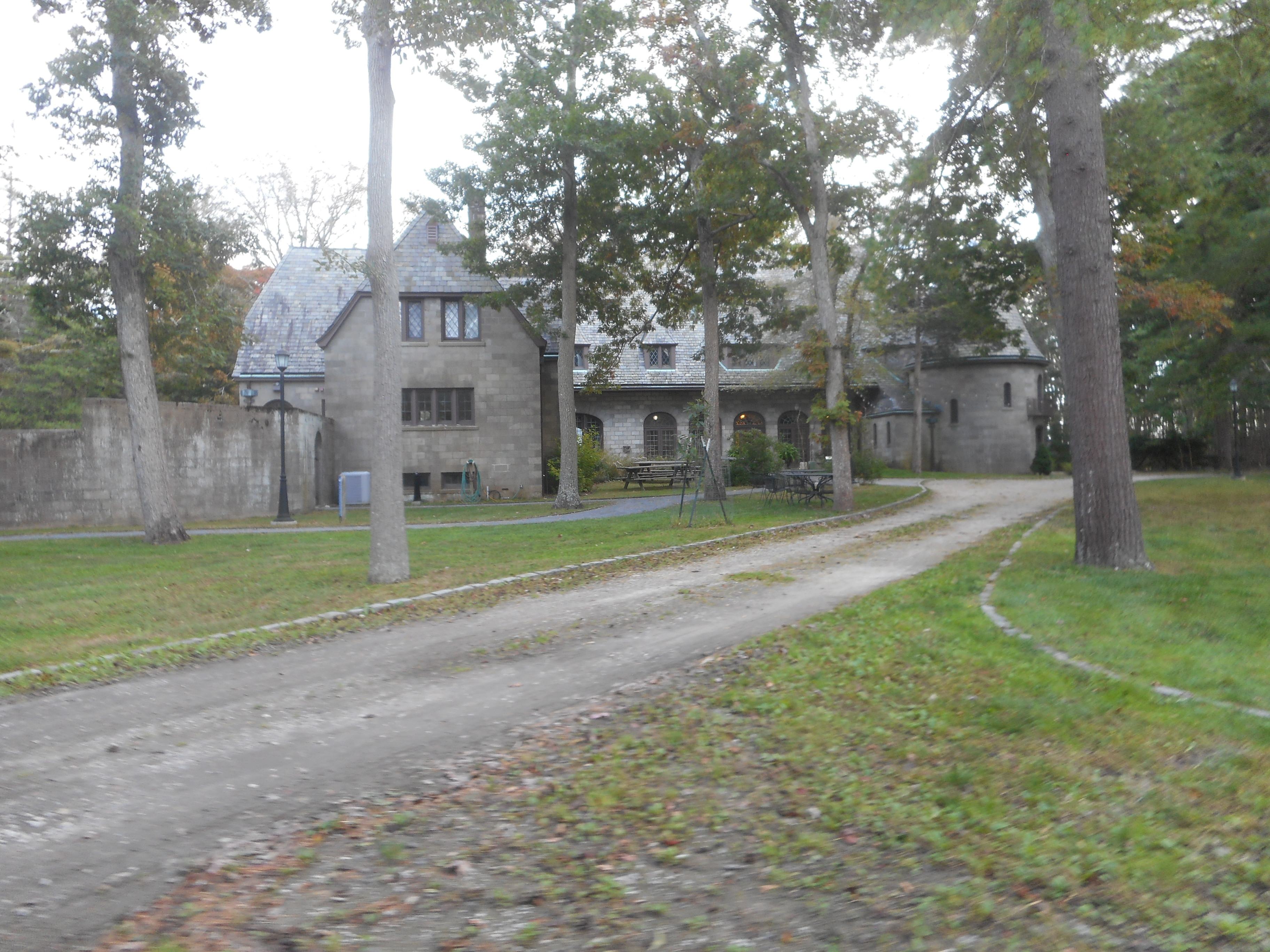 Apparently the front view of the Wereholme Mansion, also known as the Harold H. Weeks Estate and the Scully Estate at 550 South Bay Avenue in Islip, New York. The mansion is now owned by the Suffolk County Department of Parks, Recreation and Conservation and serves as the Suffolk County Nature Center which is surrounded by the Seatuck National Wildlife Refuge.